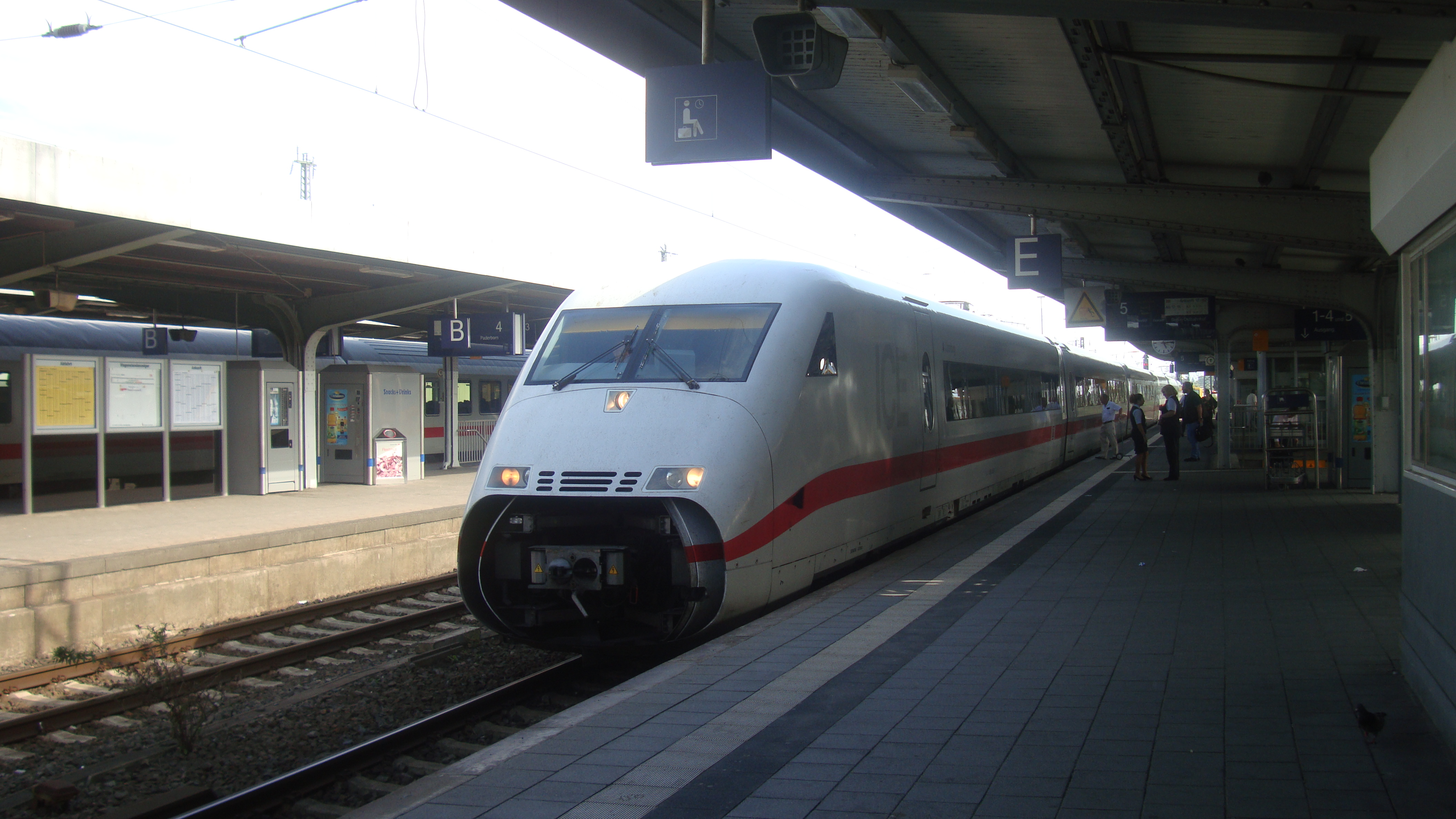 Trains at Hamm